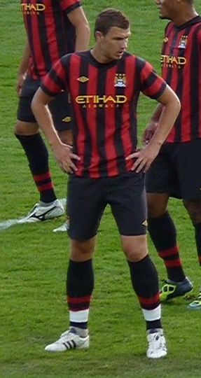 Edin Dzeko with Manchester City on July 18, 2011